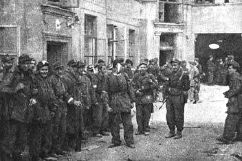 Warsaw Uprising: Zdzisław Zołociński "Piotr" (on the right) and soldiers from "Szczęsny" Platoon of "Czata 49" Battalion in the middle of August in the courtyard of a house at the corner of Bonifraterska and Żoliborska streets. Żoliborska street was connecting at that time Stawki and Międzyparkowa streets.